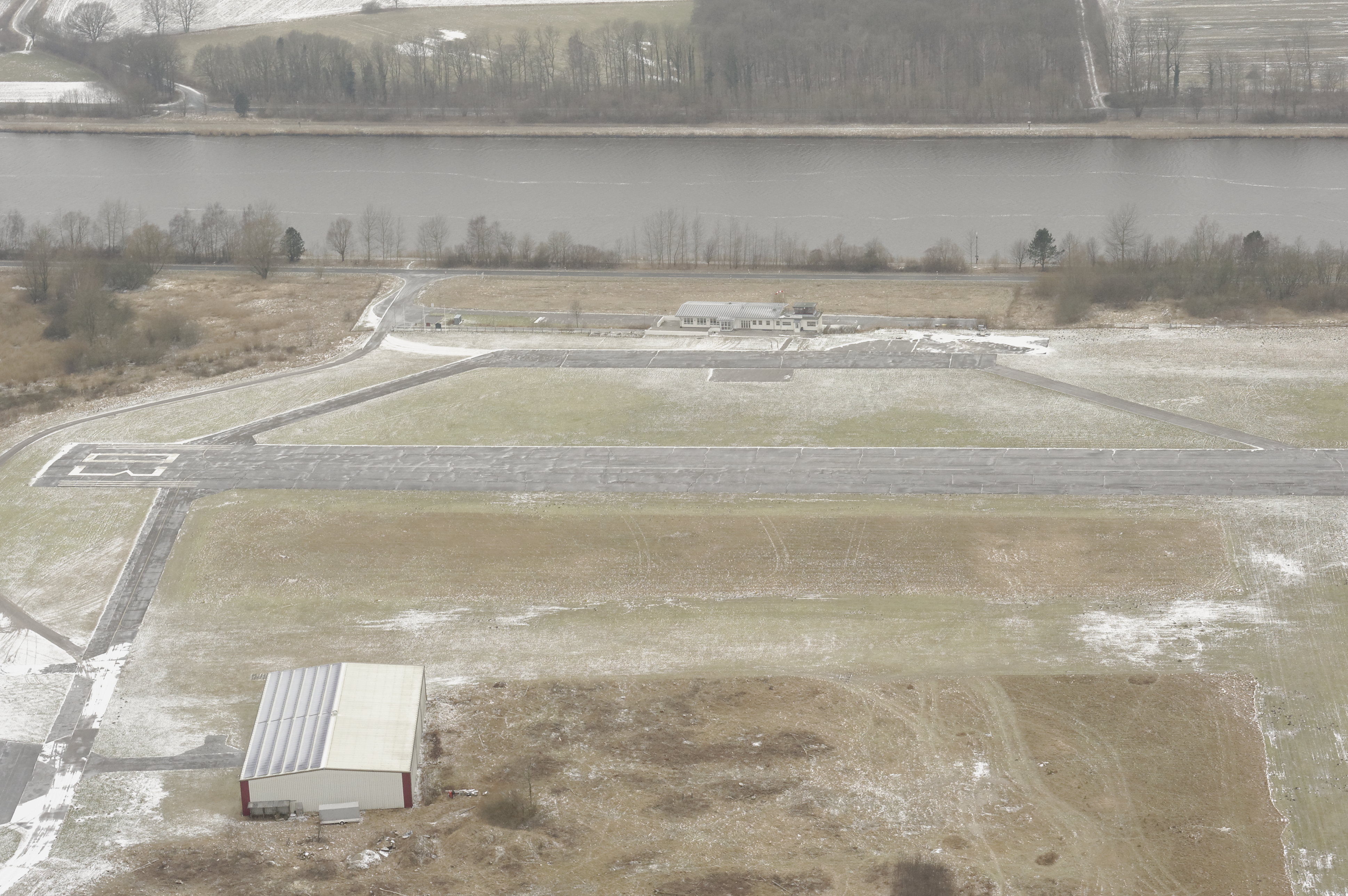 Fotoflugkurs Cuxhaven - leider bei trüben Wetter Fotoflugkurs Cuxhaven 2013 22. - 24. Februar 2013 vom Flugplatz Nordholz-Spieka Mit Unterstützung durch die Sportfluggruppe Nordholz/Cuxhaven e. V. The making of this document was supported by the Community-Budget of Wikimedia Germany. The making of this work was supported by Wikimedia Austria. For other files made with the support of Wikimedia Austria, please see the category Supported by Wikimedia Österreich.